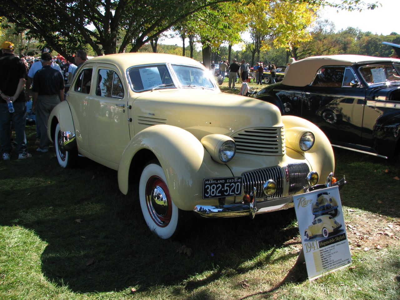 1941 Hupmobile Skylark Sedan, on display at the Hershey Car Show 2008